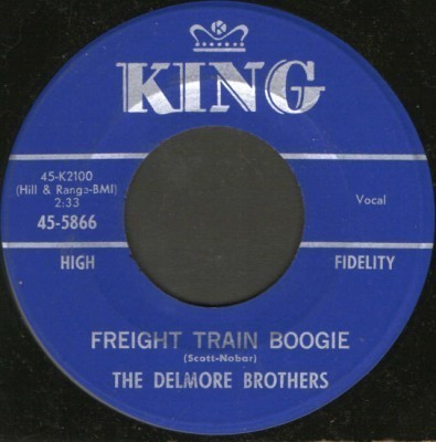 Freight Train Boogie by the Delmore Brothers, King 1946.